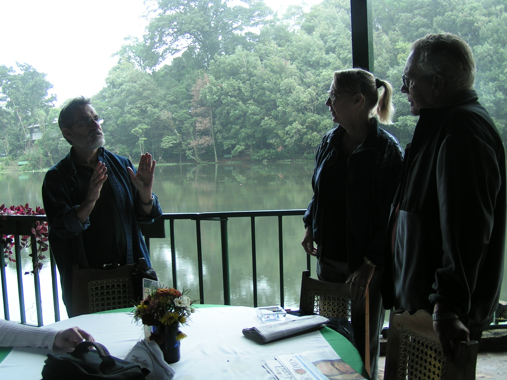 Eddy Kühl (left) with American visitors